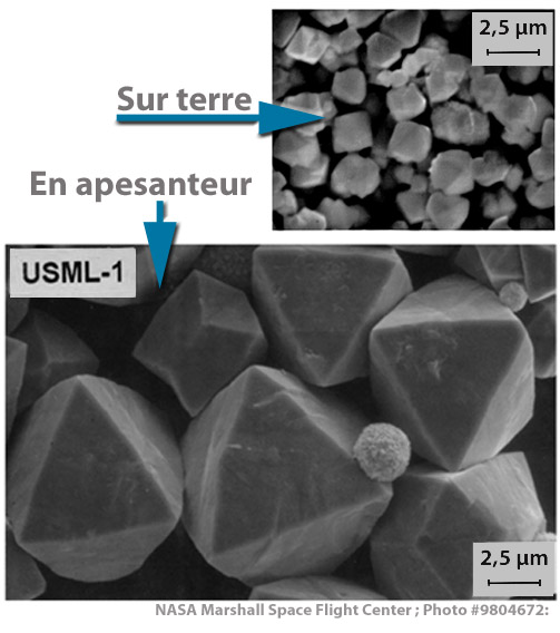 The zeolite crystals grown on the ground, left, are smaller than ones grown in space, right. If larger, more perfect crystals can be grown, researchers learn more about the way zeolites are made. This information might be used to improve petroleum processing and reduce costs and pollution. The Center for Advanced Microgravity Materials Processing at Northeastern University in Boston -- a NASA Commercial Space Center -- is working with industry to grow larger, more perfect crystals aboard the Space Shuttle and the International Space Station — the first permanent, space laboratory. This research is part of the Space Product Development Program managed at NASA’s Marshall Space Flight Center in Huntsville, Ala.